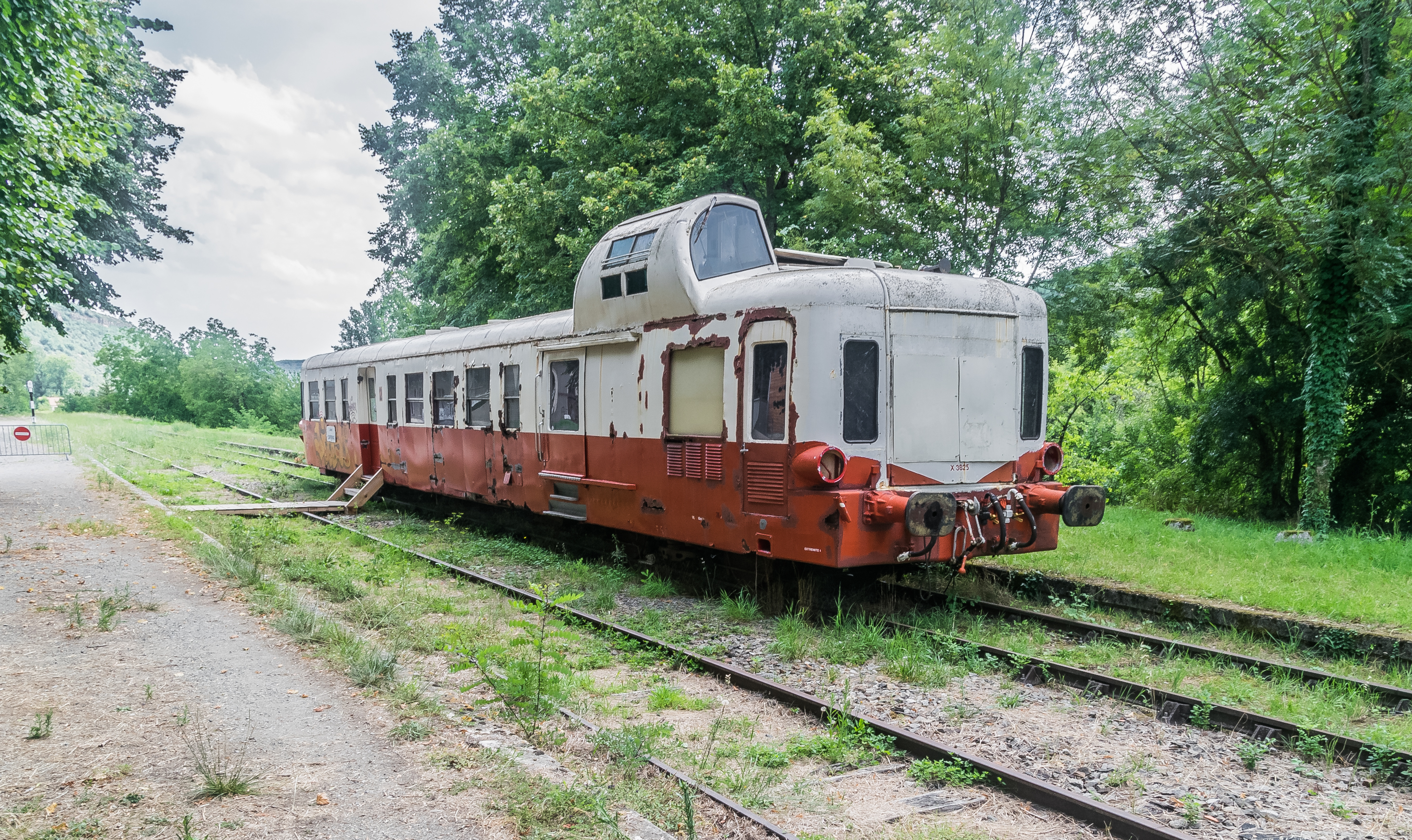 Locomotive wreck at the closed railway station of Cajarc, Lot, France .